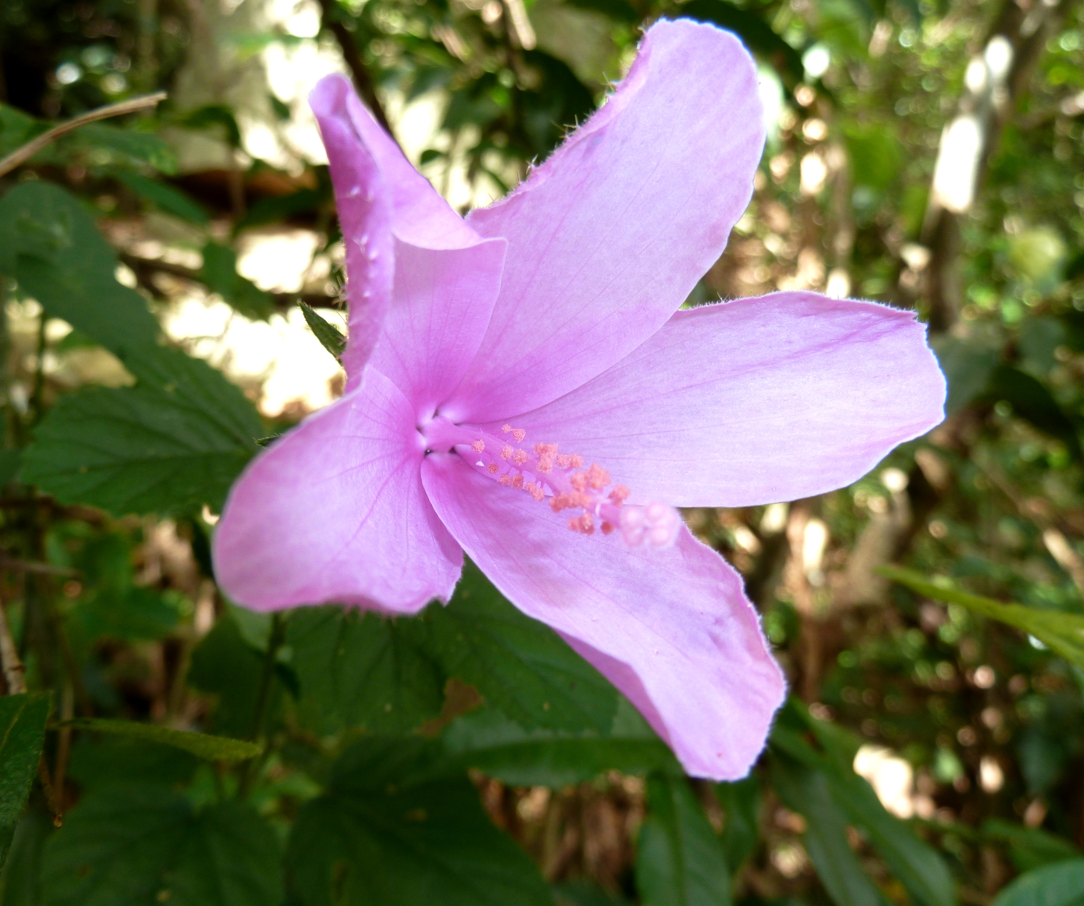 Forest pink hibiscus in Krantzkloof Nature Reserve, KwaZulu-Natal